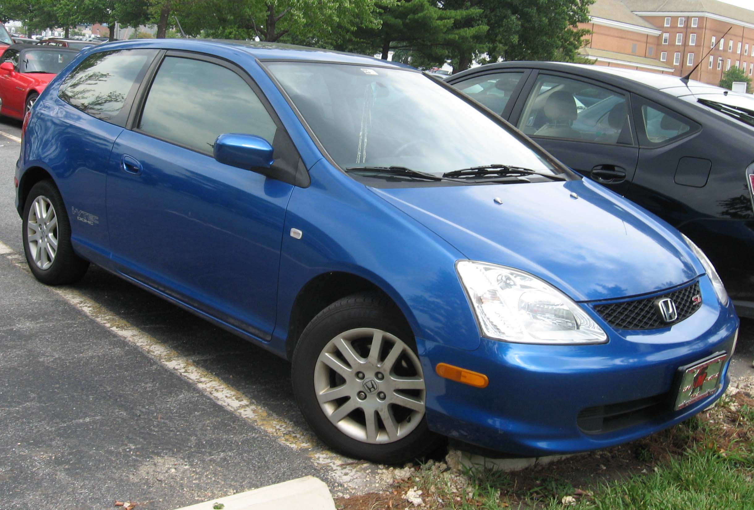 2002-2003 Honda Civic photographed in USA.